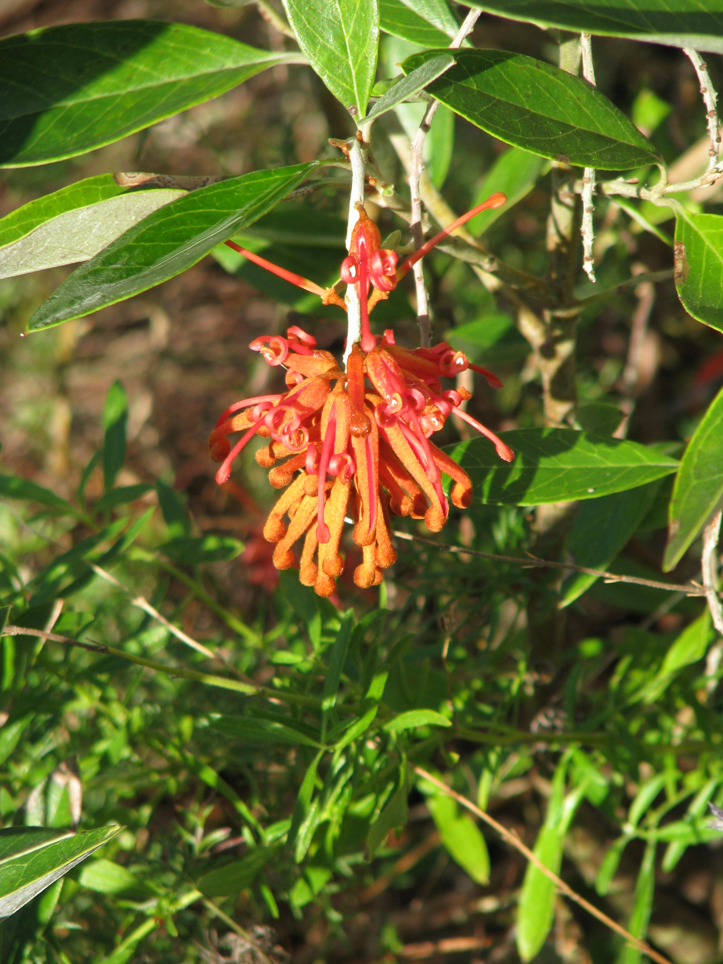 This is a species of the mountains - often at quite high altitudes - in NSW, Victoria and Canberra - hence the cold tolerance.